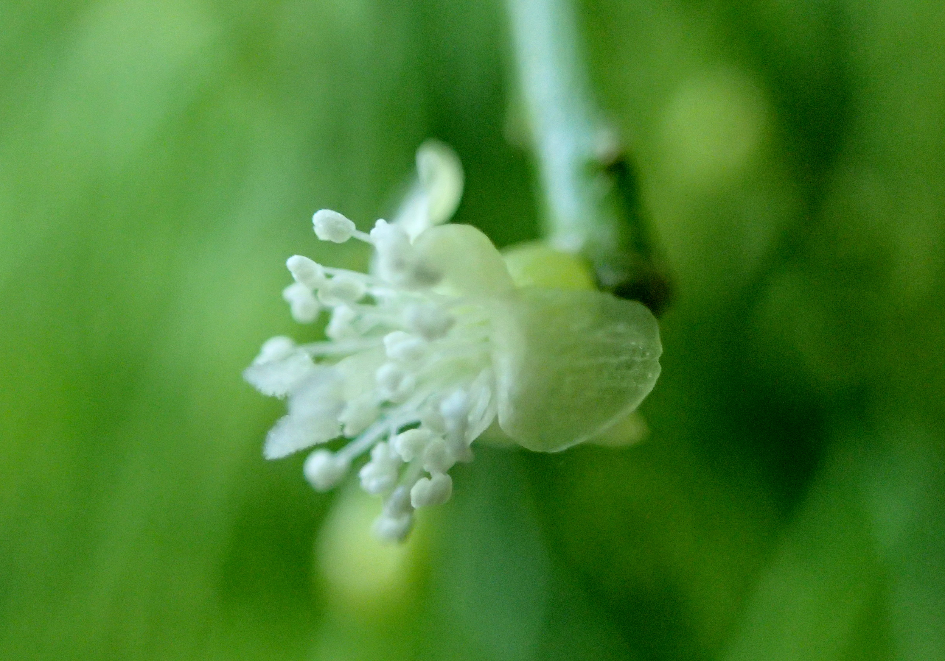 Rhipsalis teres in Boltz Conservatory, Madison, Wi